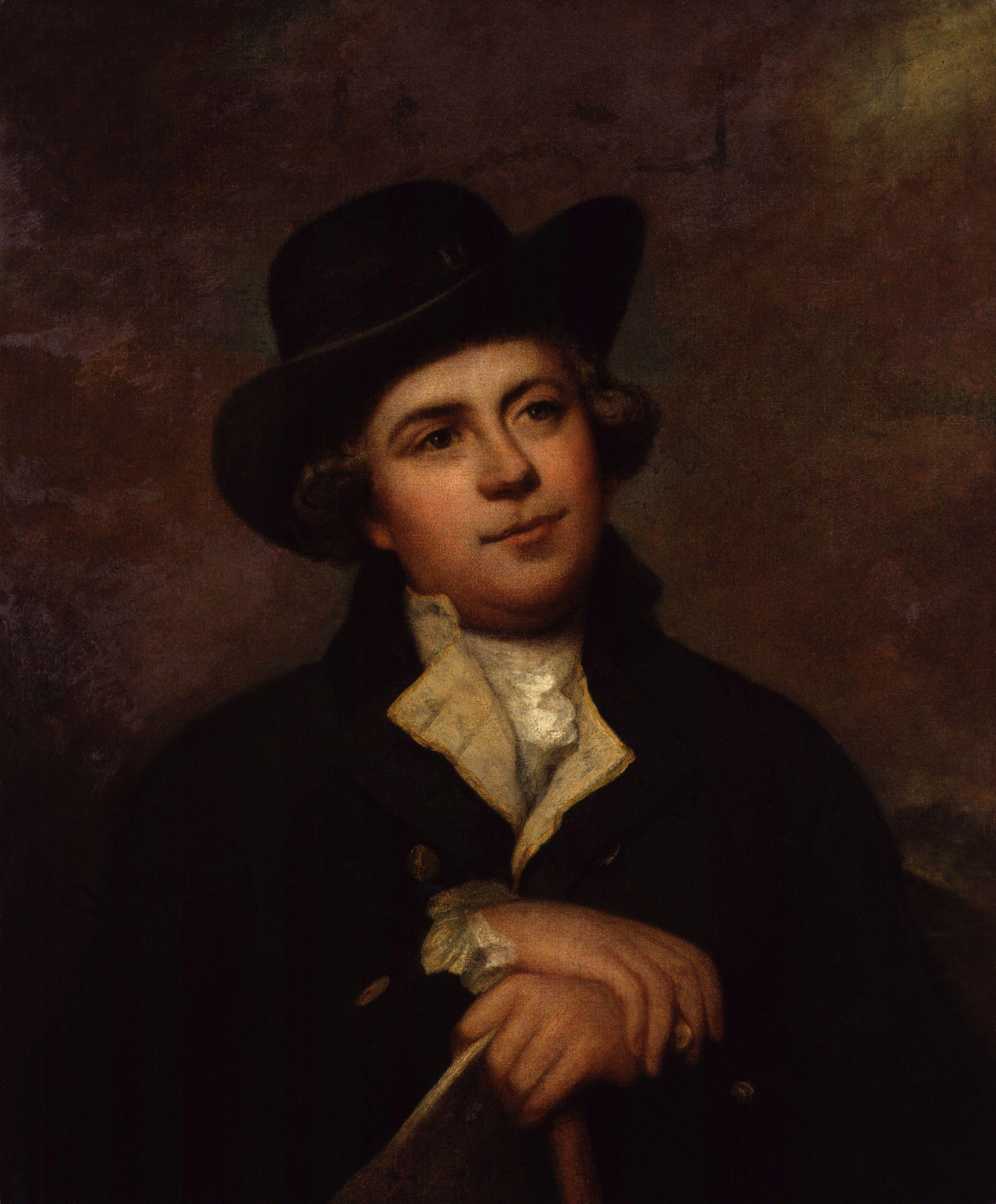 John Quick, by Thomas Lawranson. All images in this batch have a known author, but have manually examined for strong evidence that the author was dead before 1939, such as approximate death dates, birth dates, floruit dates, and publication dates.